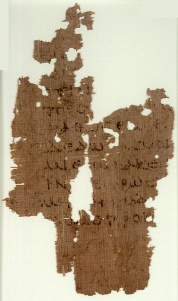 Papyrus 108; recto Pangasinan: Papyrus 108; recto